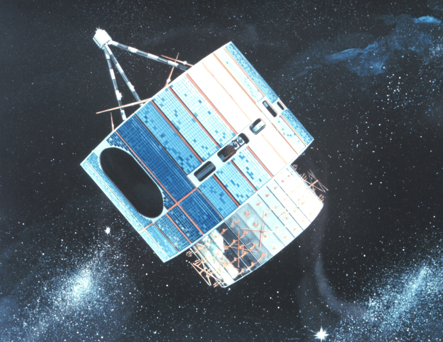 Illustration of the SMS-derived GOES 1/2/3 spacecraft.